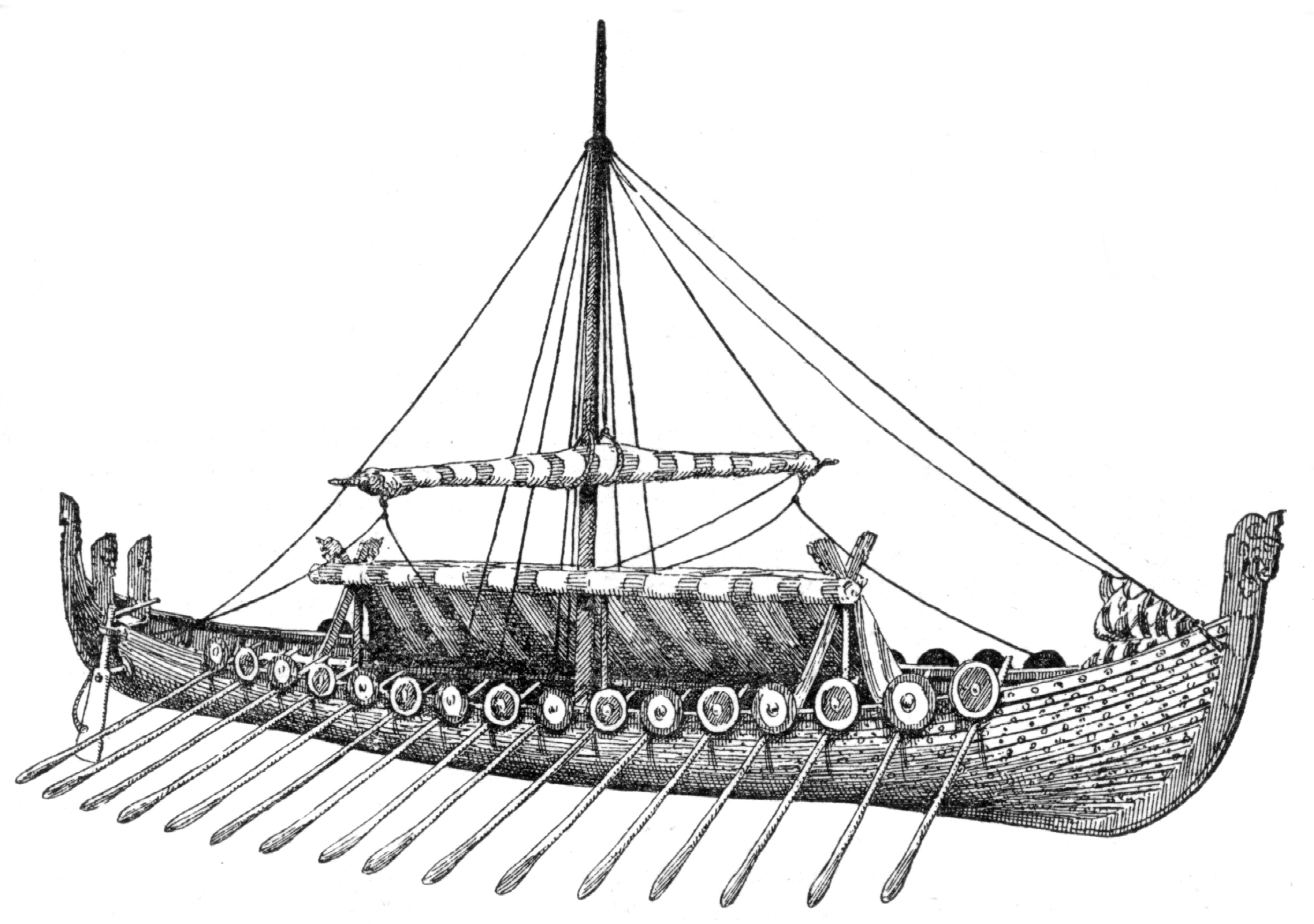 The Drakkar - complete ship